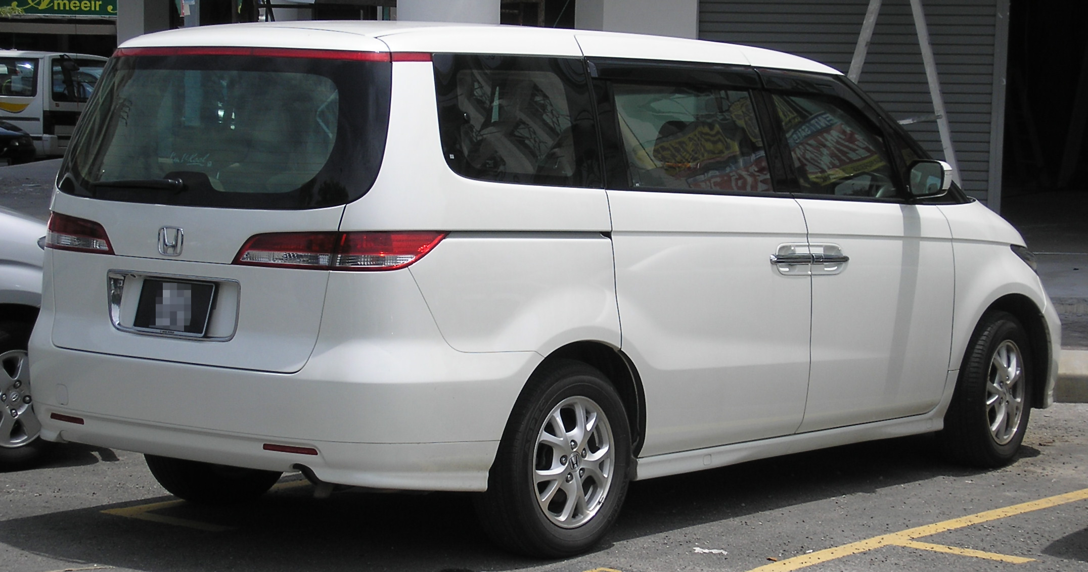 Rear quarter view of a first generation Honda Elysion in Serdang, Selangor, Malaysia.